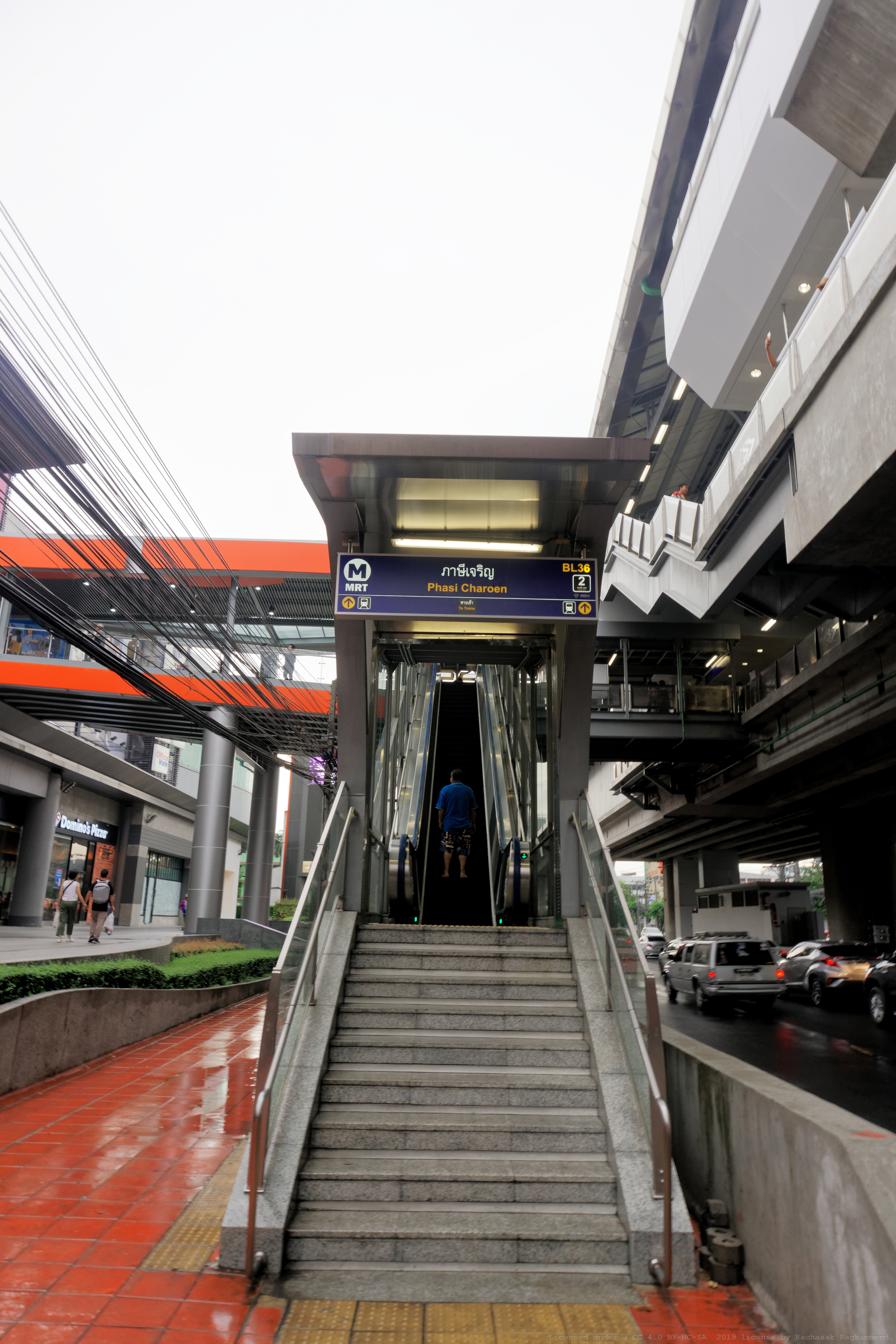 MRT Phasi Charoen station: Exit #2 in front of Seacon Bangkae shopping mall. View from the pedestrian path.